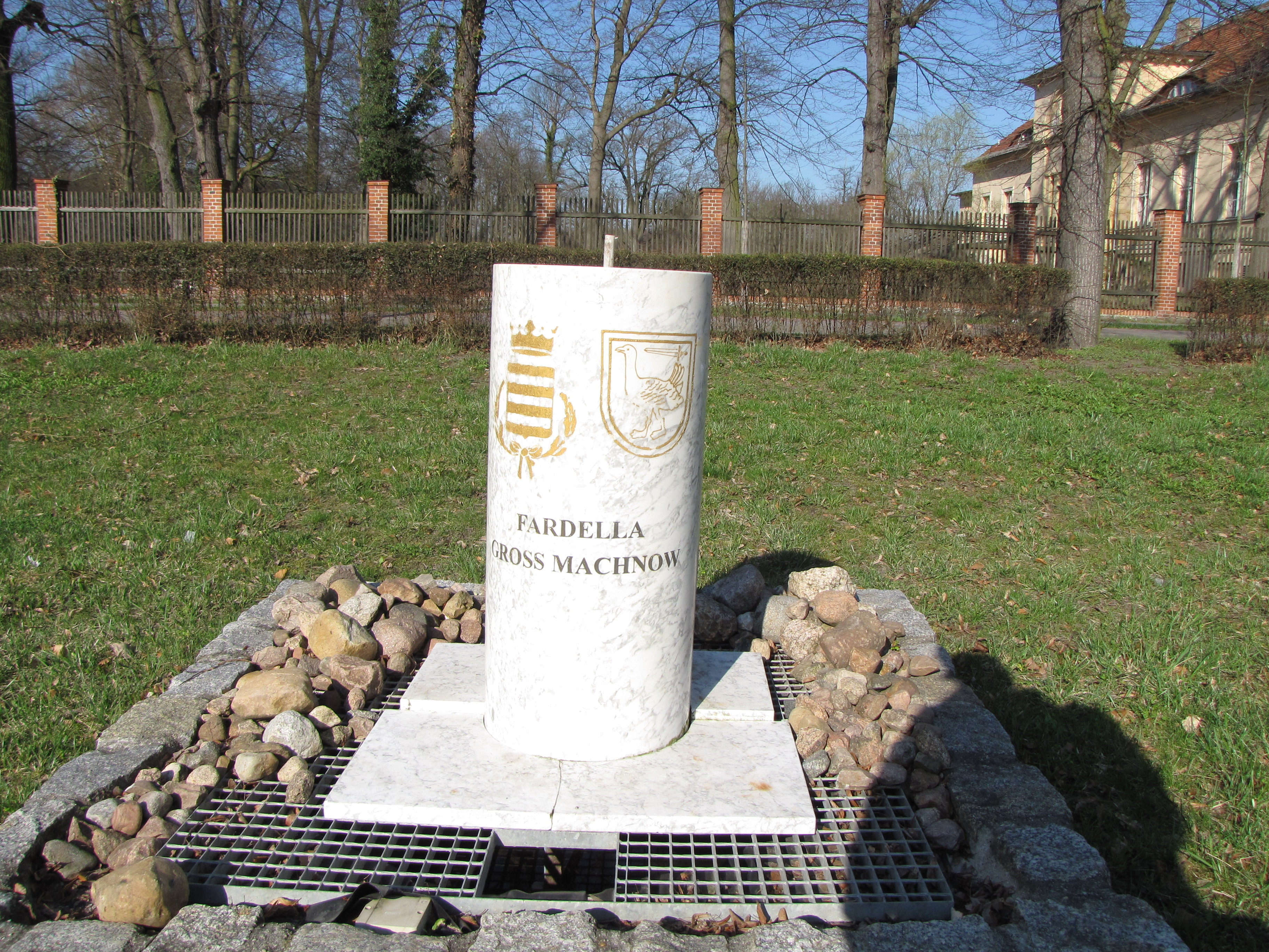 Gedenkstein an die Partnerschaft mit Fardella (Basilikata, Italien) auf dem Dorfanger südlich der Dorfkirche, Groß Machnow, Gem. Rangsdorf, Brandenburg